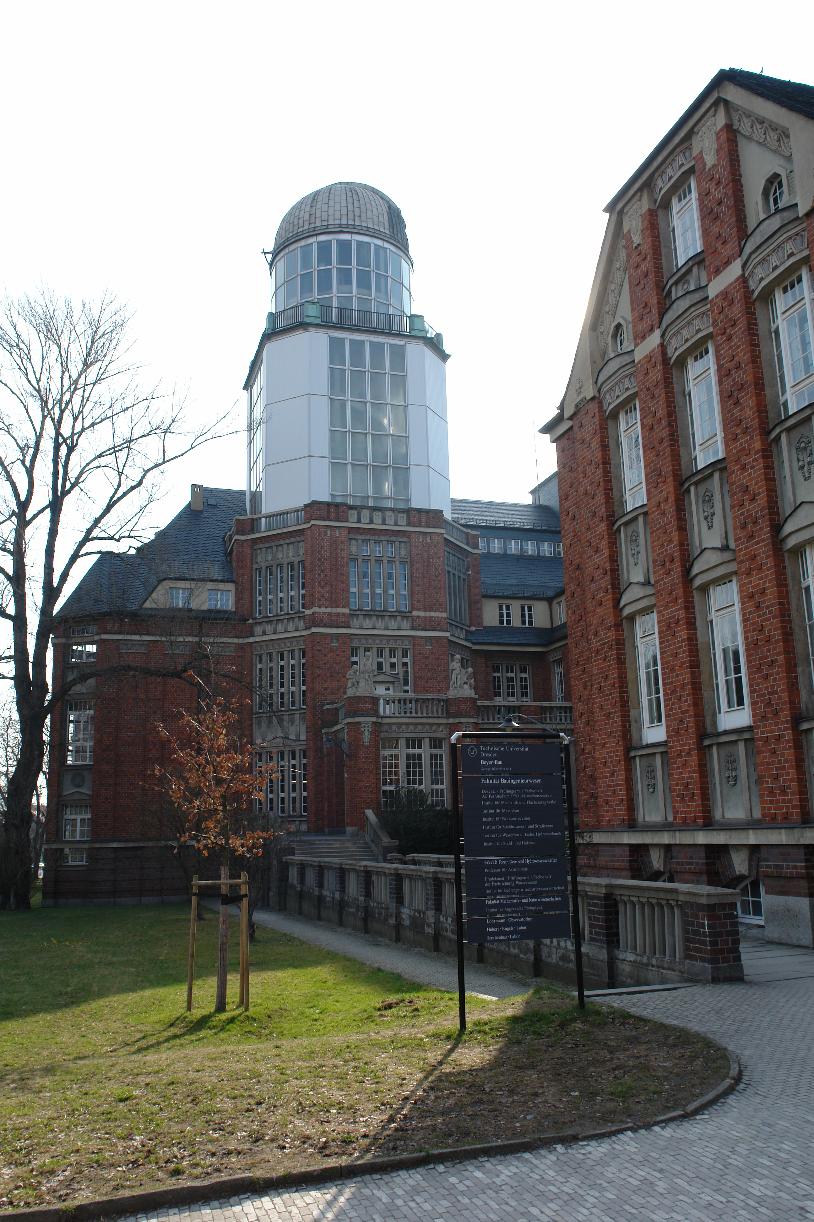 Beyer-building with observatory of the Technische Universität Dresden (Dresden University of Technology), Germany.